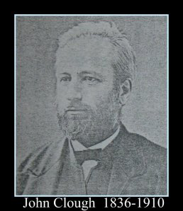 John Everett clough, pioneer american baptist missionary in andhra